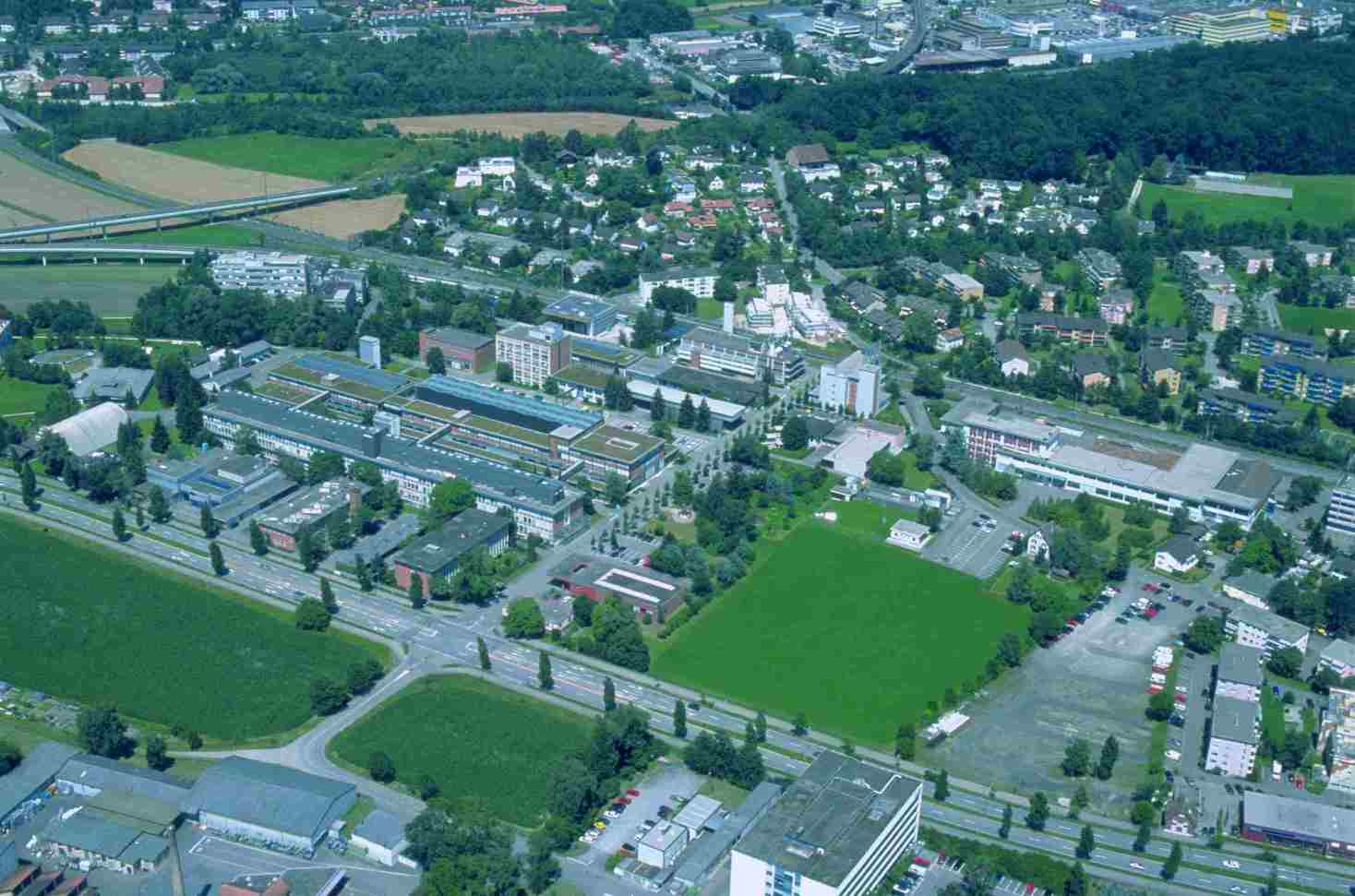 Premises of Empa (Eidgenoessische Materialuntersuchungs- und Forschungsanstalt) Materials Science and Technology in Duebendorf, Switzerland